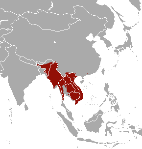 Burmese Ferret-badger (Melogale personata) range